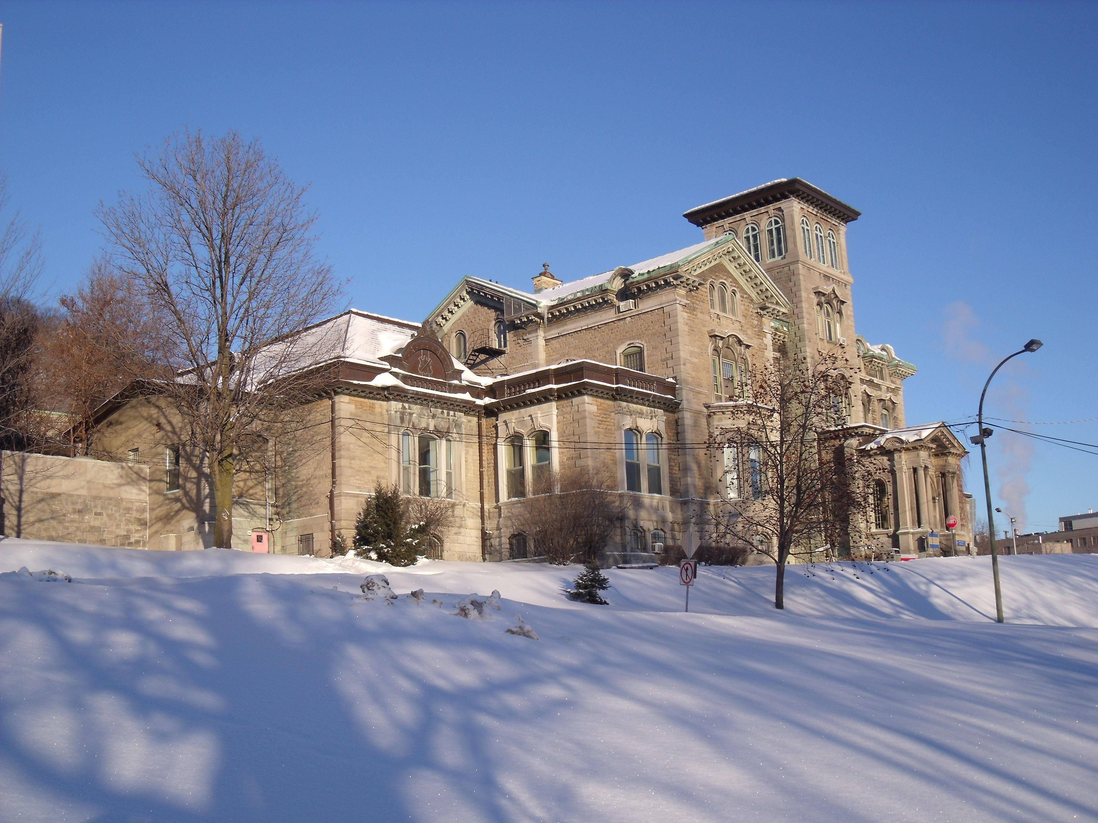 Hugh Allan House "Ravenscrag" (1863), 835-1025 Pine Avenue West, Montreal, Quebec, Canada.